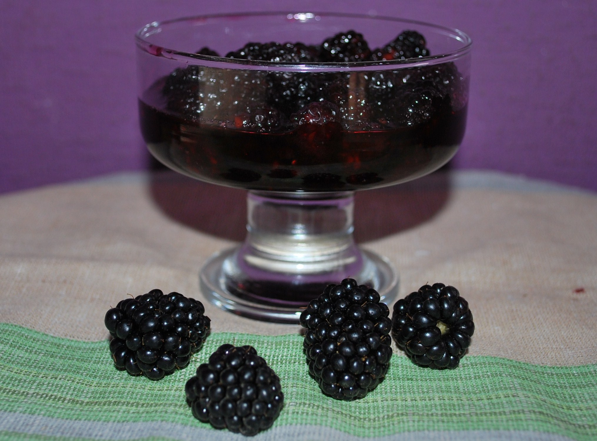 Blackberry murabba (varenye)